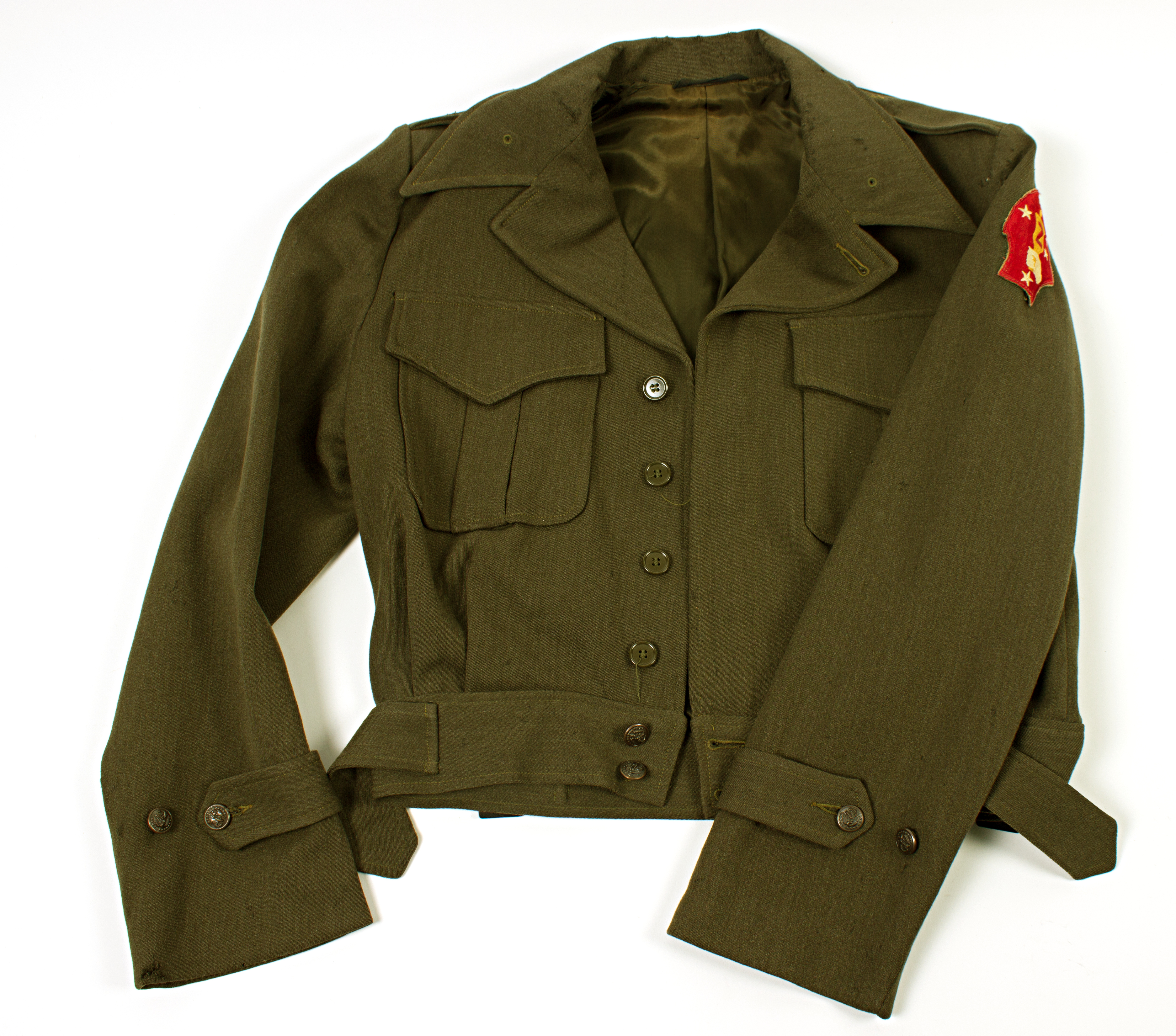 US Marine Corps uniform jacket, WW2 belonged to Major DE Wakefield, 2nd Marine Division US Marine Corps battle dress ("Eisenhower" or "Ike" jacket style); short close-fitting lined jacket with concealed buttons and adjustable waistband; khaki woollen fabric; US 2nd Marine Division cloth badge on left shoulder; USMC buttons